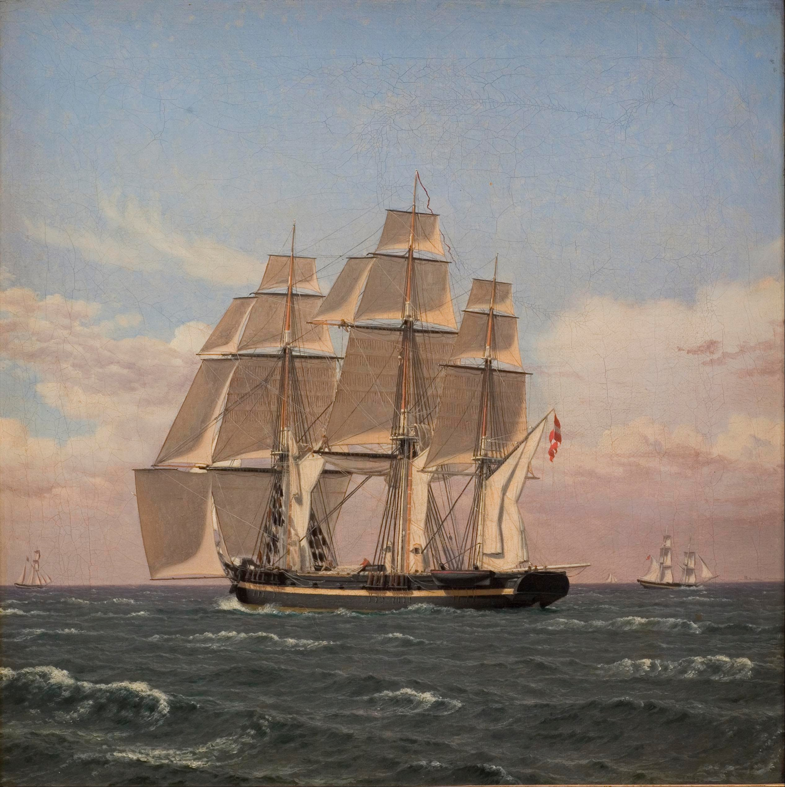 Eckersberg painted the Najaden several times, and this is the small painting gifted to professor Abrahams in 1835, and later bought by the art collector Heinrich Hirschsprung.